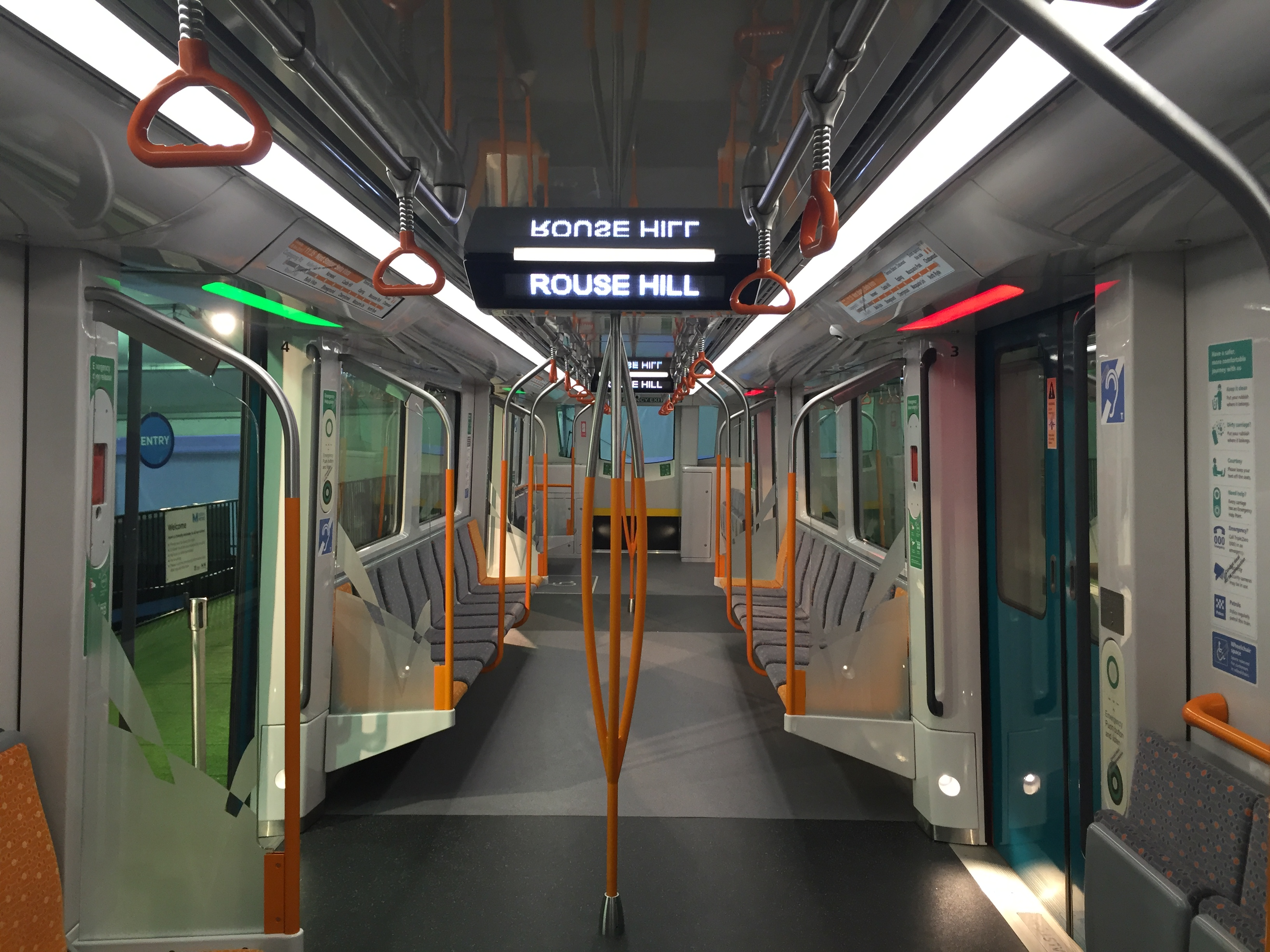 The interior of the Sydney Metro prototype train that is used on display, colours altered to reflect final scheme